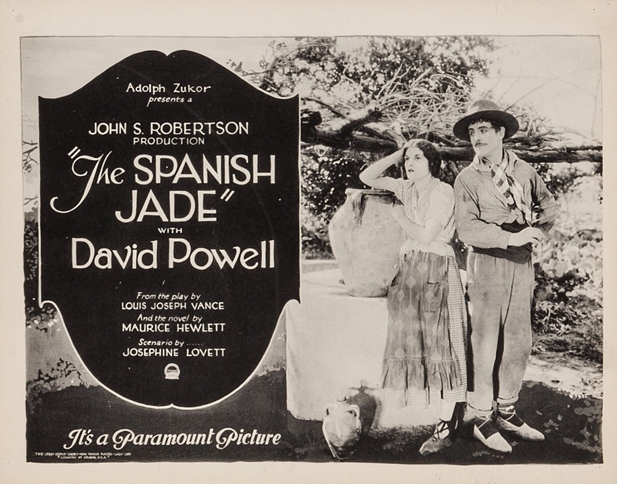 From the American release of The Spanish Jade